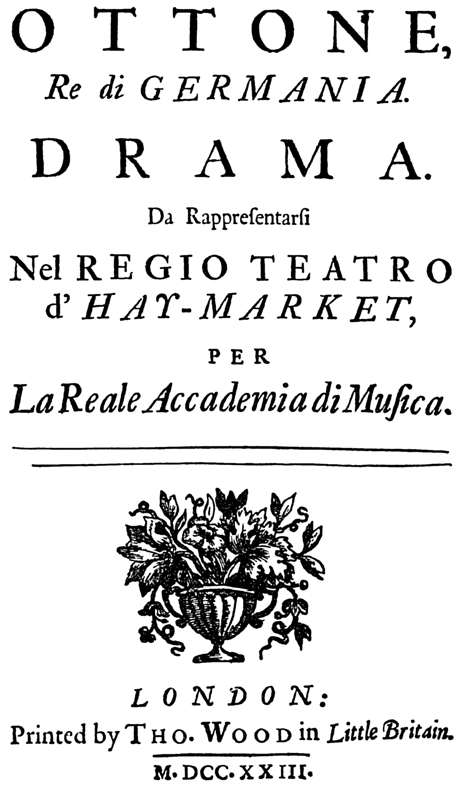 Georg Friedrich Händel - Ottone - title page of the libretto - London 1723